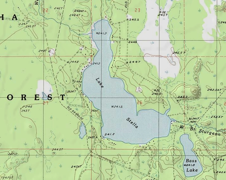 A portion of the USGS Quadrangle map for Lake Stella, MI version 1982; current as of 1985 showing Lake Stella